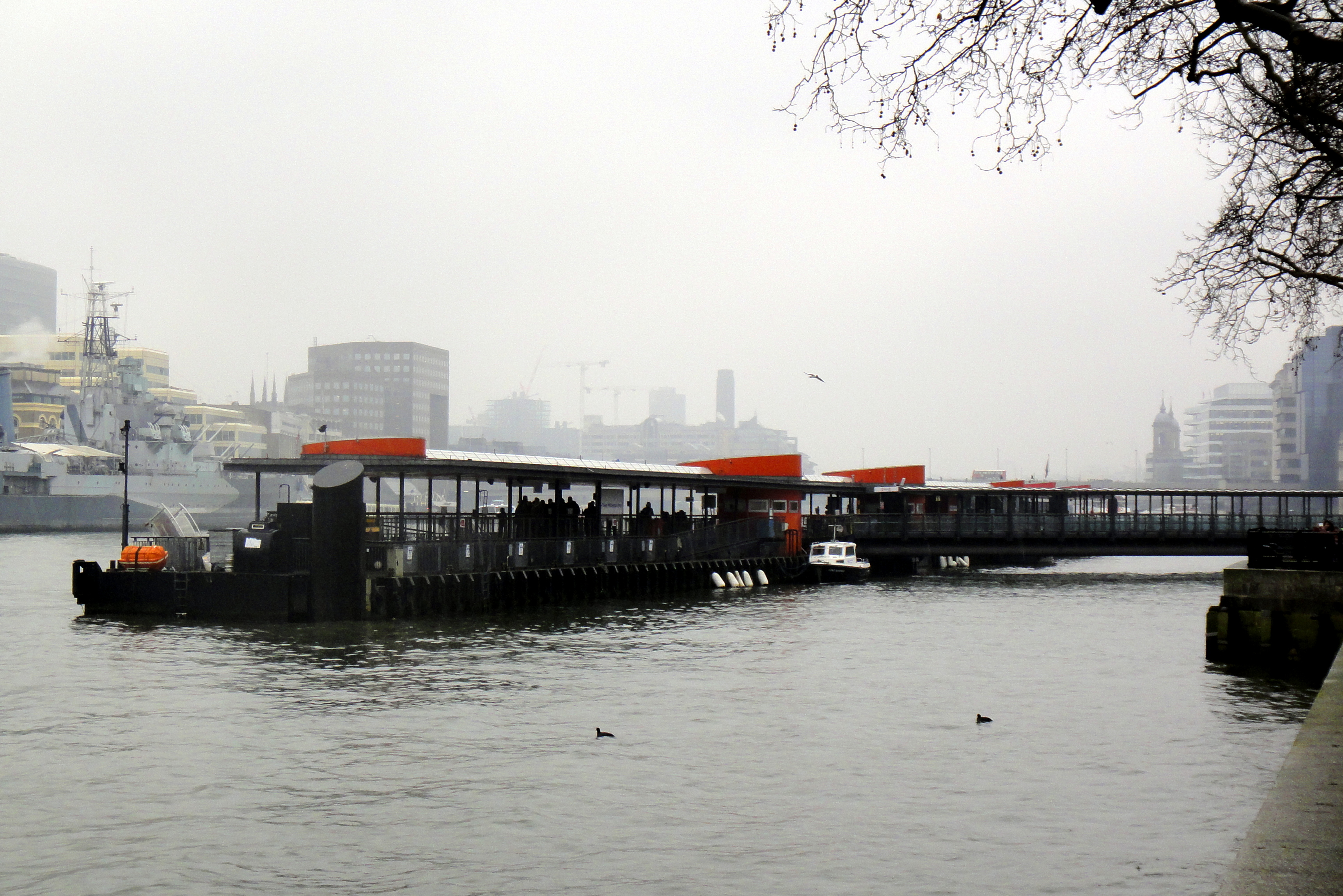 Tower Millennium Pier